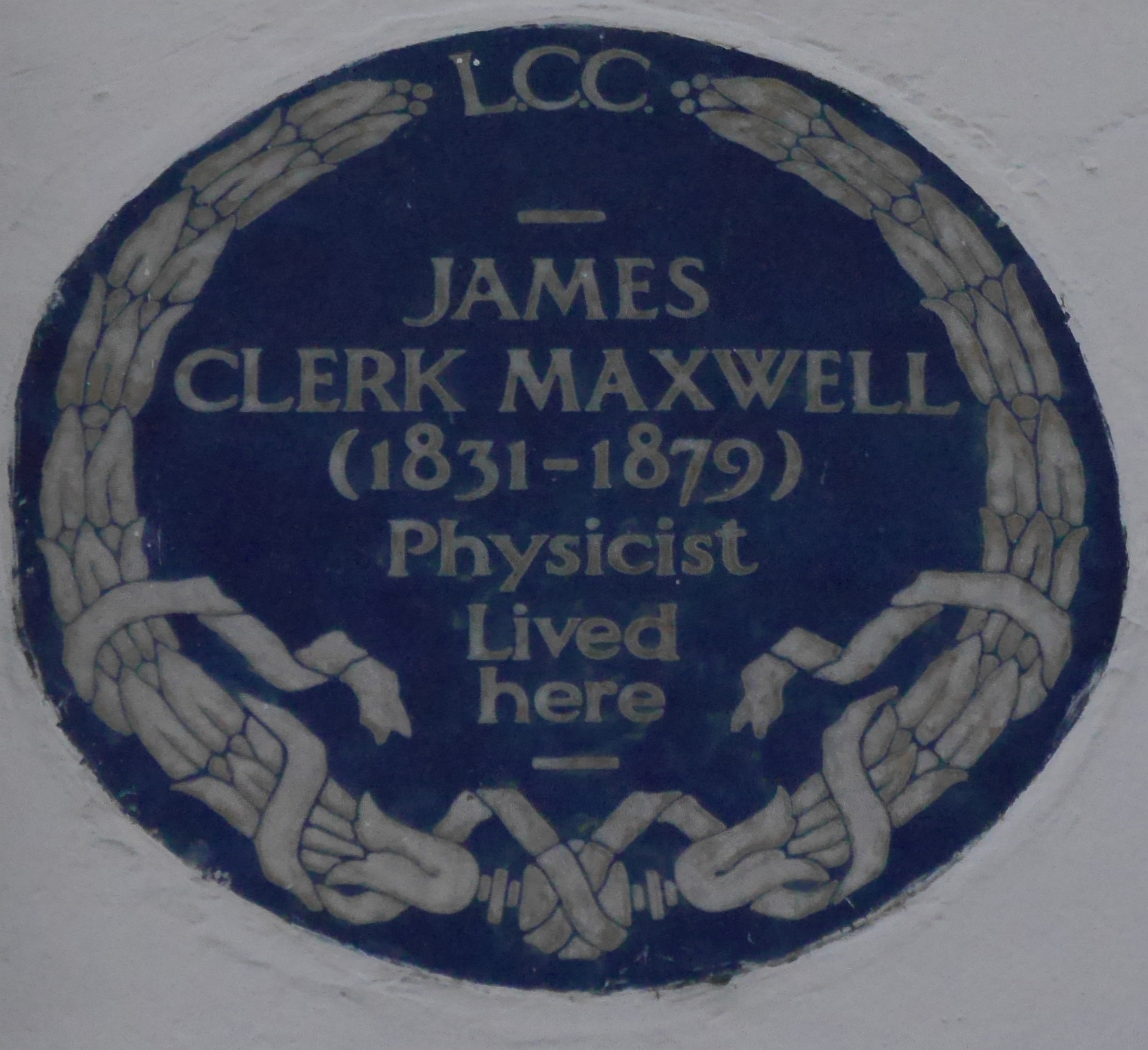 James Clerk Maxwell 16 Palace Gardens Terrace blue plaque